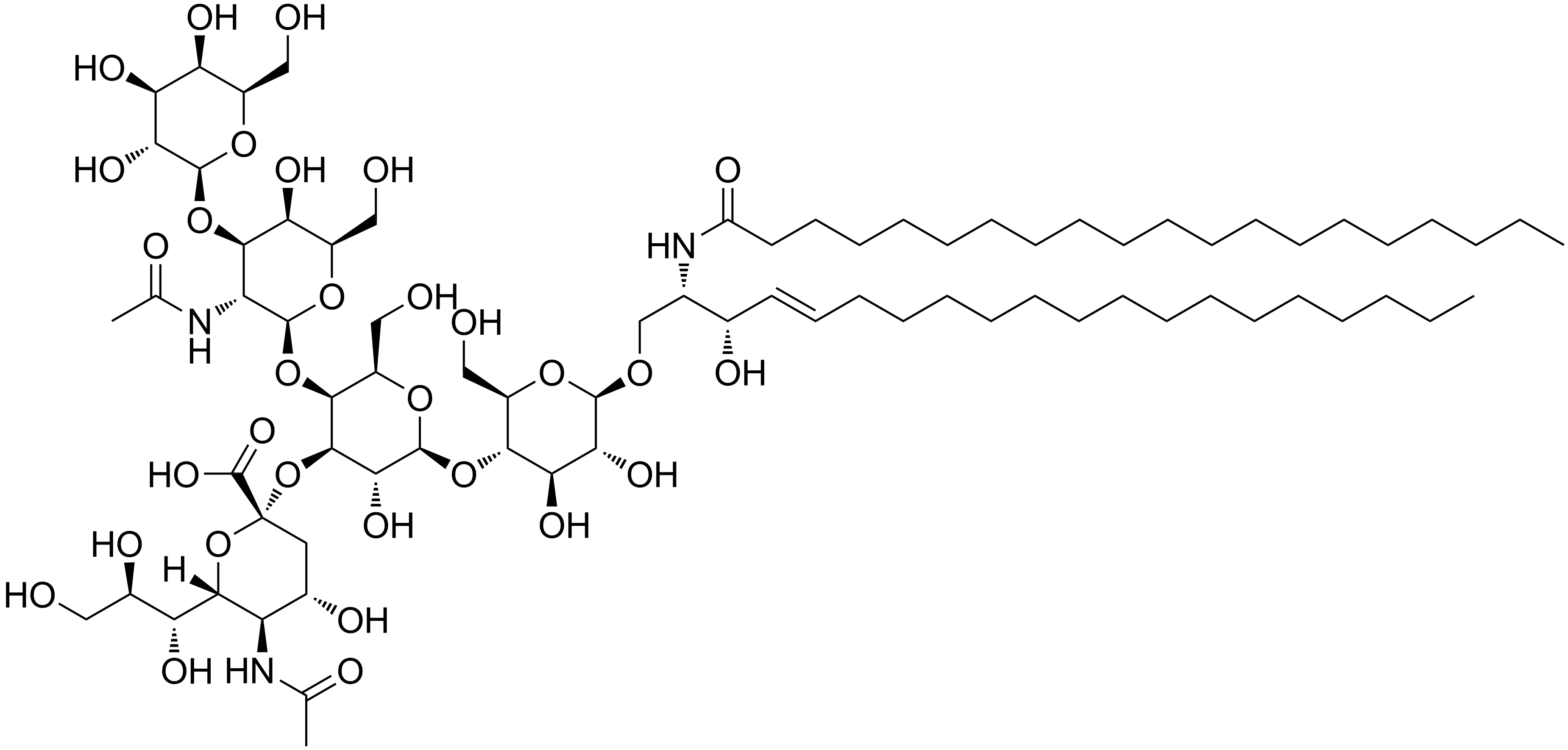 Chemical structure of GM1 ganglioside. Based on: Giovanni Cavallo, Carlo Iavarone and Ezio Tubaro, "Preparation and characterization of four new variously deacetylated lysogangliosides, breakdown products of GM1", Carbohydrate Research, Volume 248, 4 October 1993, Pages 251-265